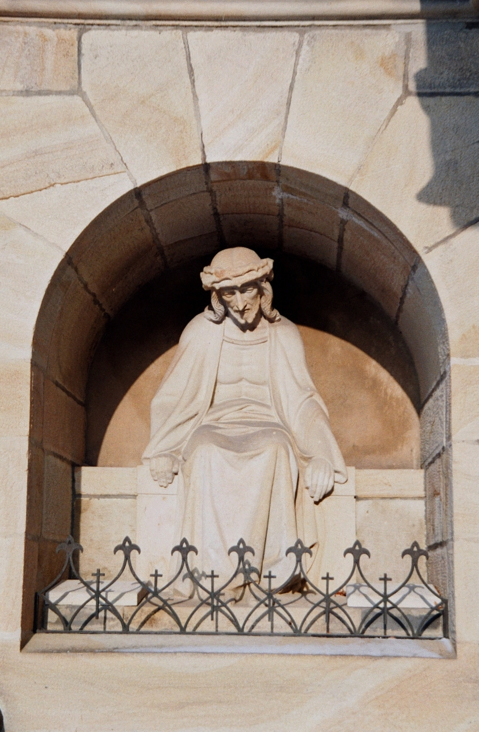 Sculpture Ecce Homo, made in 1934 by Wilhelm Bolte (1859-1941), at the Roman Catholic church St Agatha in Mettingen, North Rhine-Westphalia, Germany.